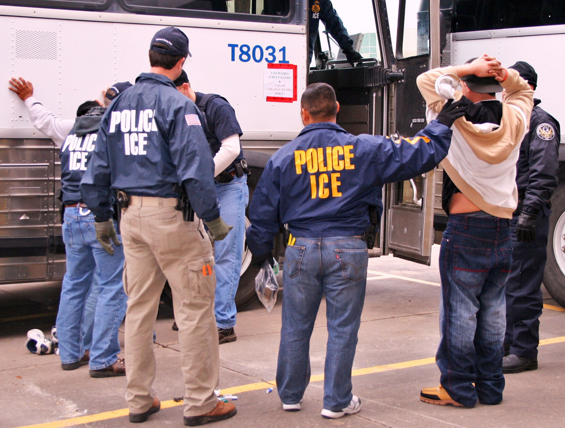 ICE Special Agents (U.S. Immigration and Customs Enforcement) arresting suspects during a raid.